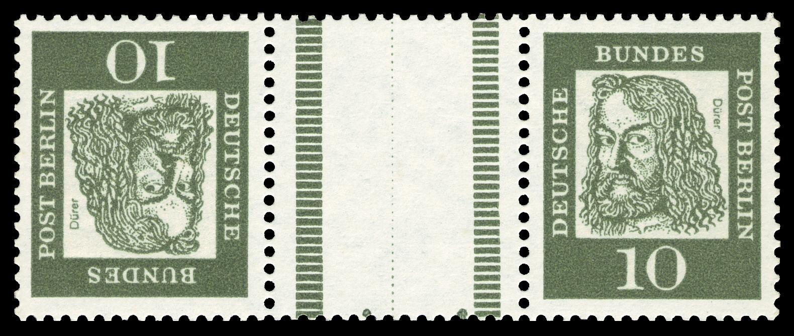 Series of Berlin stamps of distinguished German - Tête-bêche gutter pair Graphics by Michel und Kieser Ausgabepreis: 2 x 10 Pfennig First Day of Issue / Erstausgabetag: 15. Juni 1961 Michel-Katalog-Nr: 202 (Berlin)